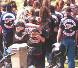 Full members of the Hells Angels.